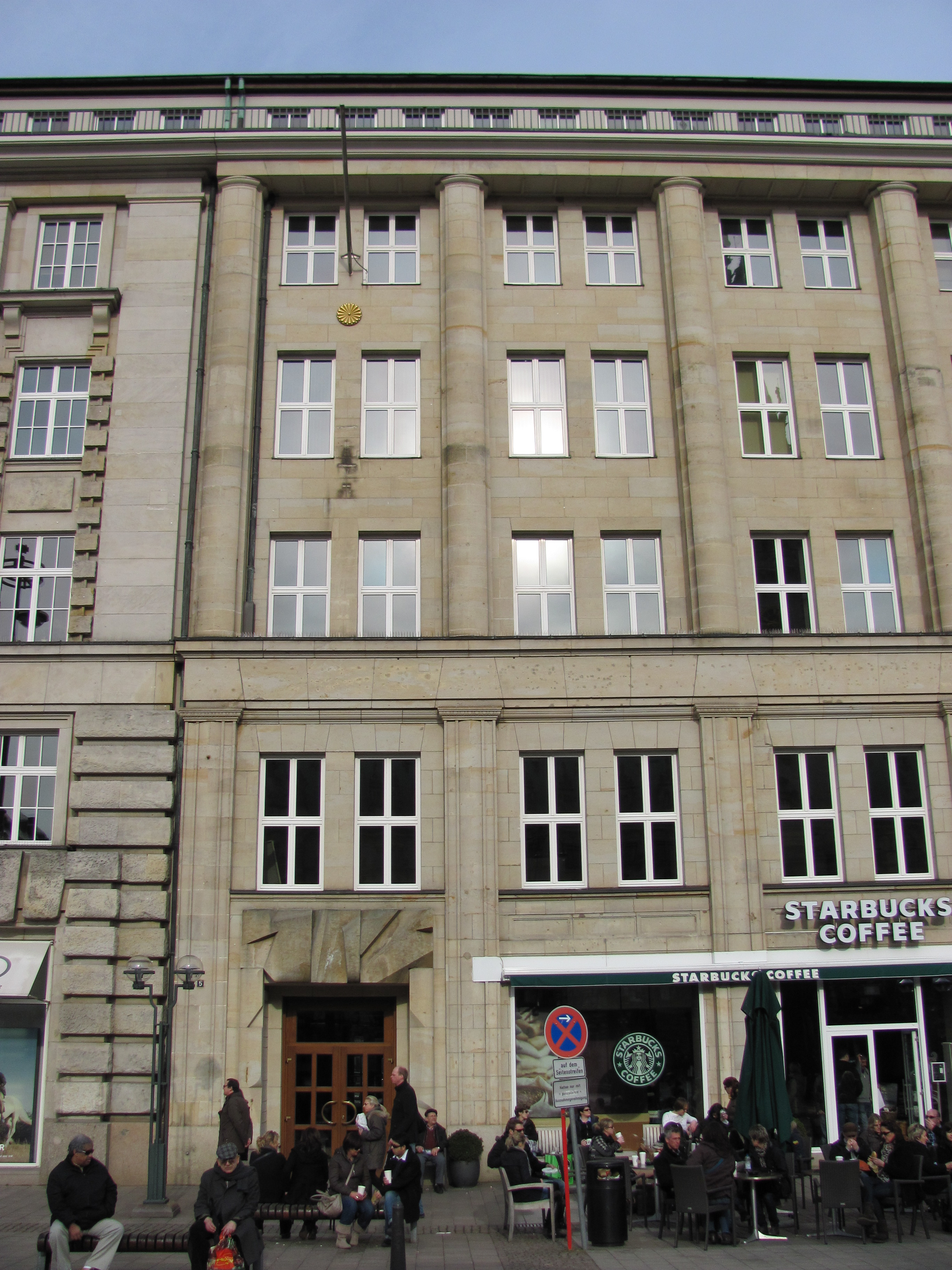 Building Rathausmarkt 5, Hamburg, consulate-general of Japan